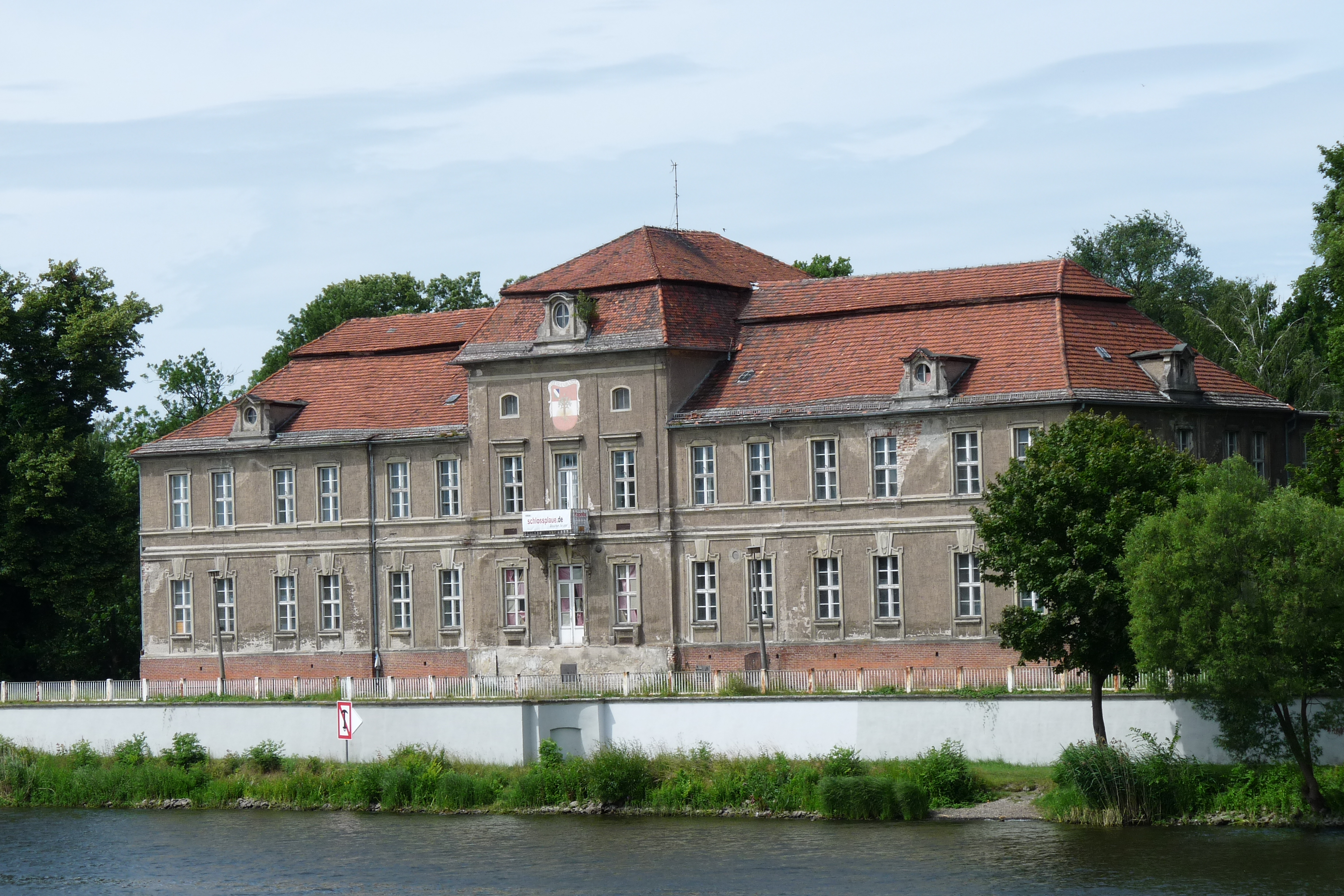 The castle at riverbank of river Havel in Plaue (Brandenburg)